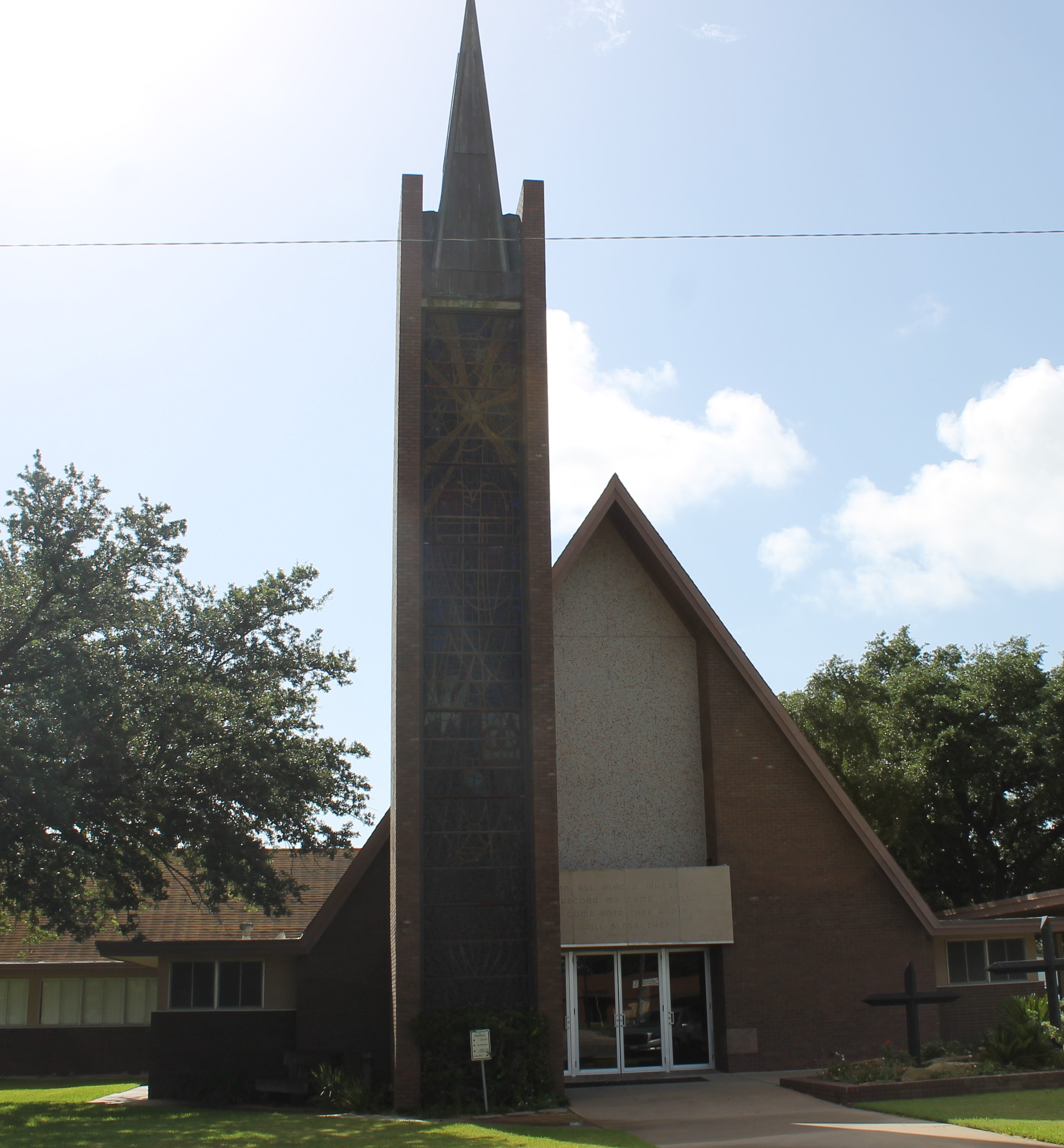 Immanuel Lutheran Church at 300 N. Grimes St. in Giddings, TX